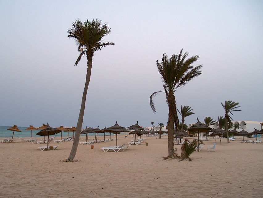 Sidi Mahrez Beach, near Midoun, in Northeast coast of Djerba, Tunisia